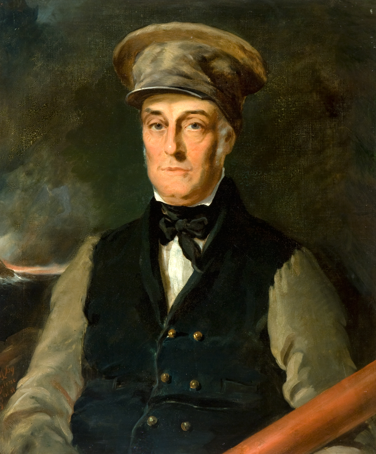 William Darling by Thomas Musgrave Joy (9 July, 1812 – 7 April, 1866) - a painter known principally for his portraits.